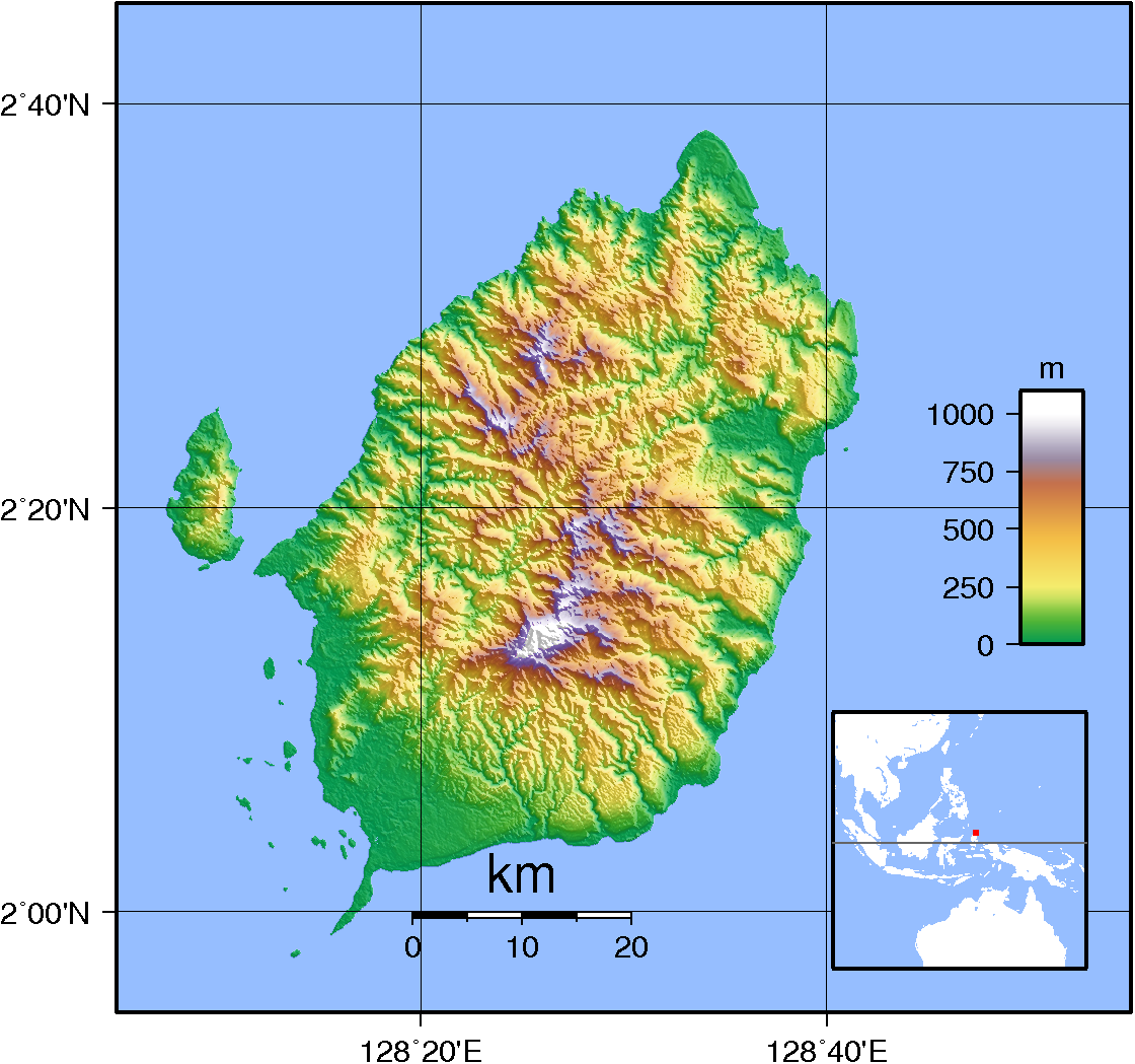 Topographic map of Morotai, Indonesia. Created with GMT from SRTM data.